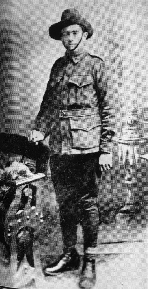 Private Henry Dalziel, V.C. Awarded the Victoria Cross for distinguished bravery at Hamel. (Description supplied with photograph.).